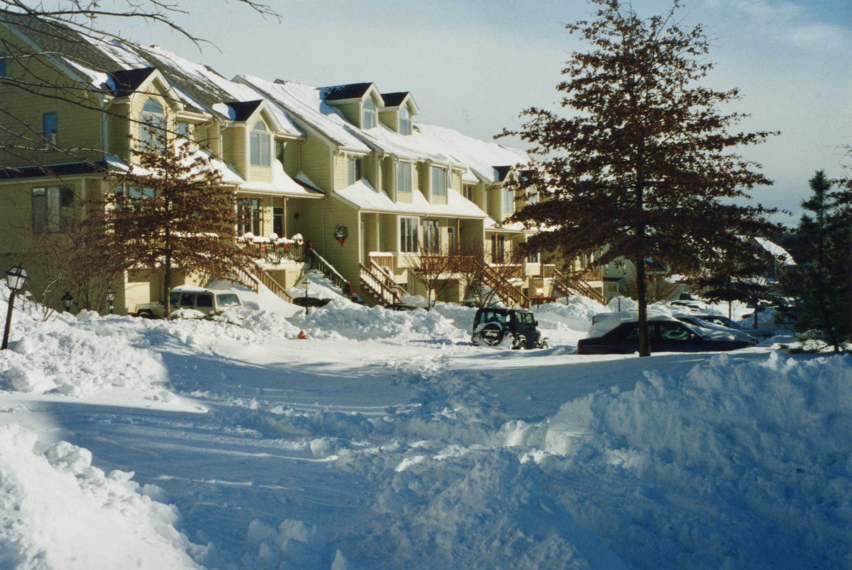 Photo taken by Robert Shawver while shoveling snow